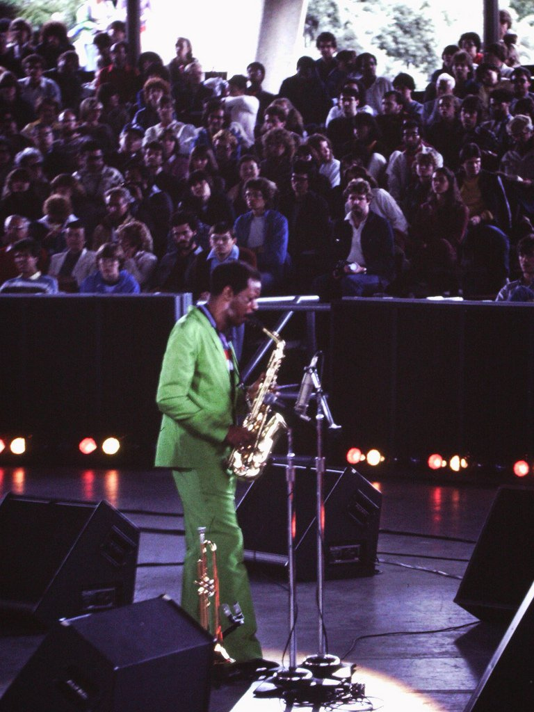 Ornette Coleman at the Ontario Place Forum, Toronto, Ontario, Canada